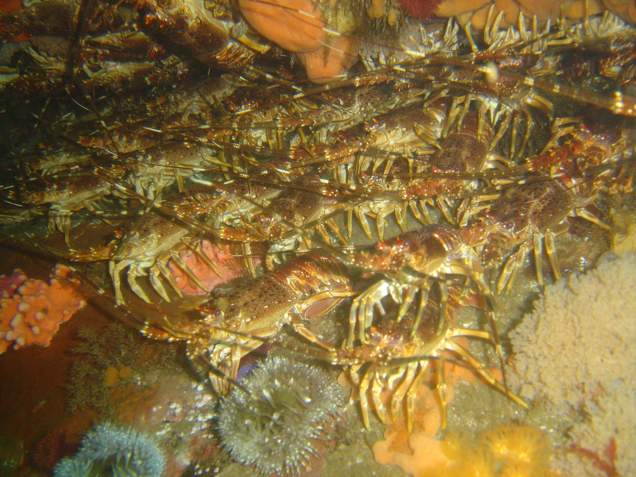 Rock lobsters at Bakoven Rock